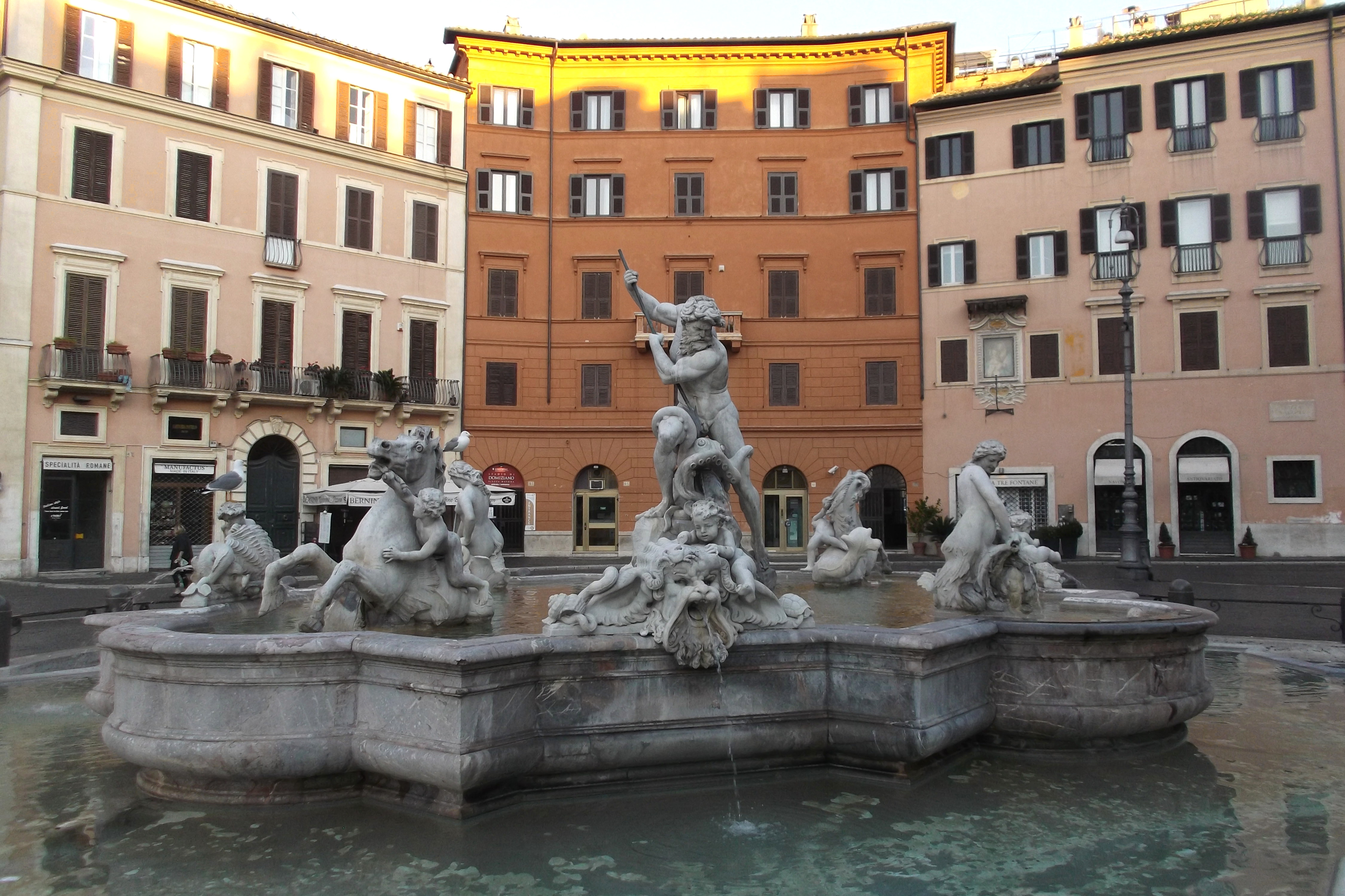 Fountain of Neptune in Piazza Navona, Rome, Italy.